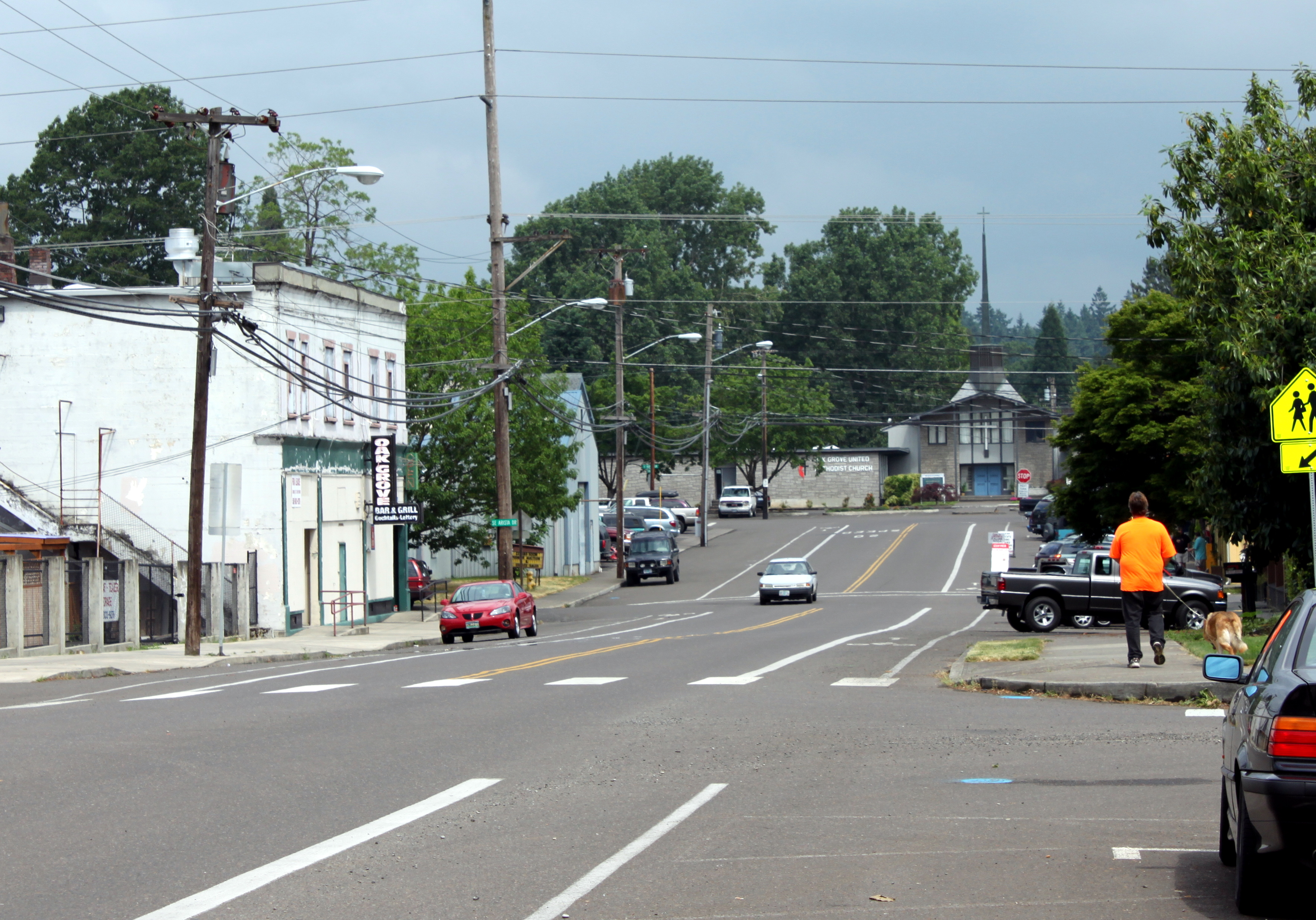 Oak Grove, Oregon, near Portland, Oregon.